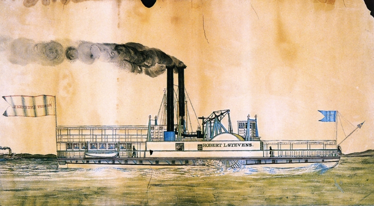 Robert L. Stevens, Hudson River steamboat built 1835. Watercolor on paper by Bard brothers.